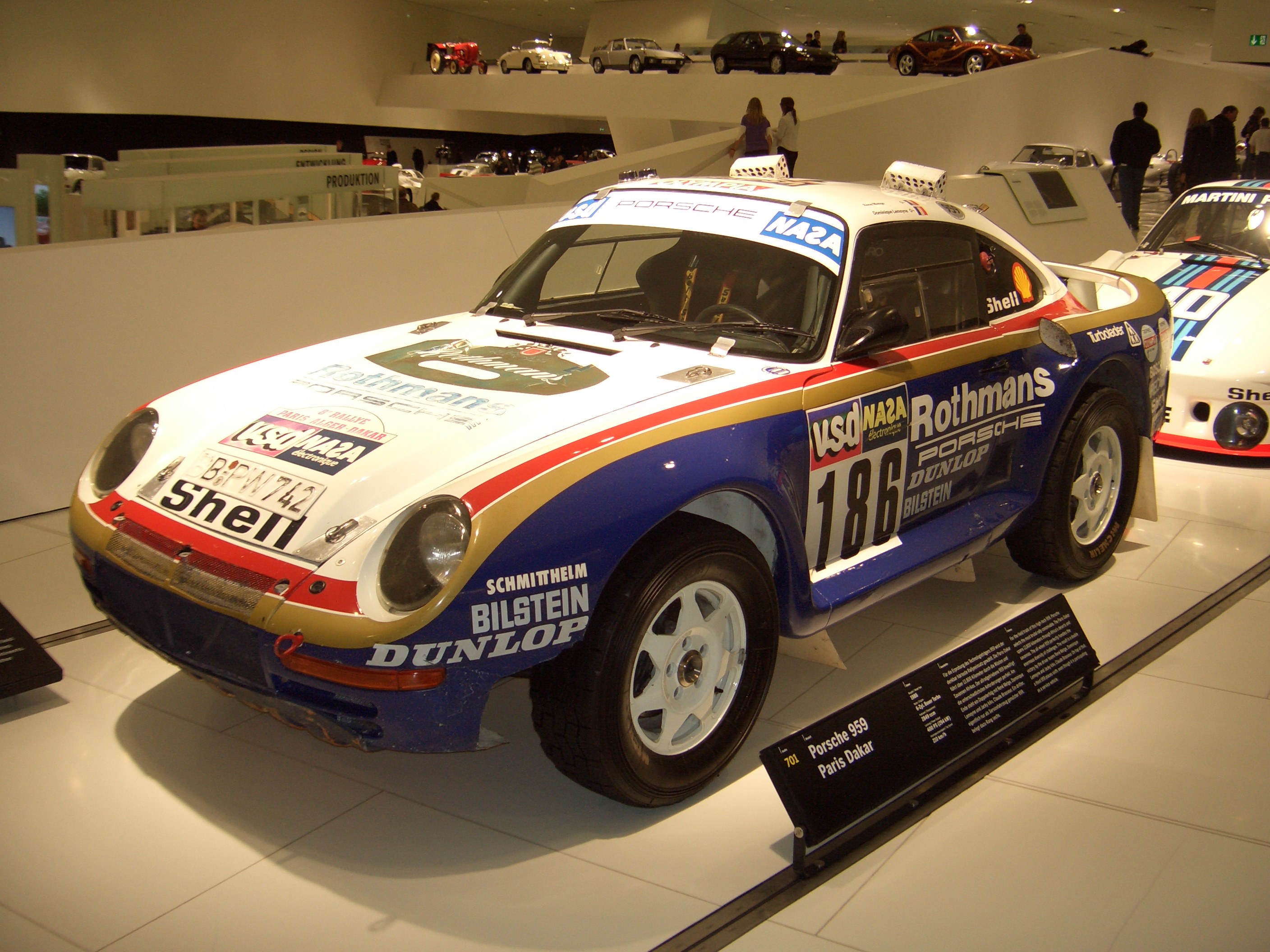 see filename for despcription - seen at PORSCHE MUSEUM in Stuttgart, Germany